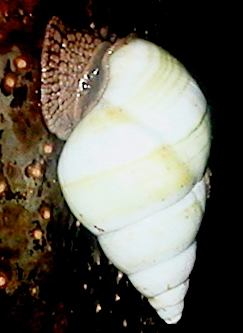 Liguus fasciatus from Everglades National Park.